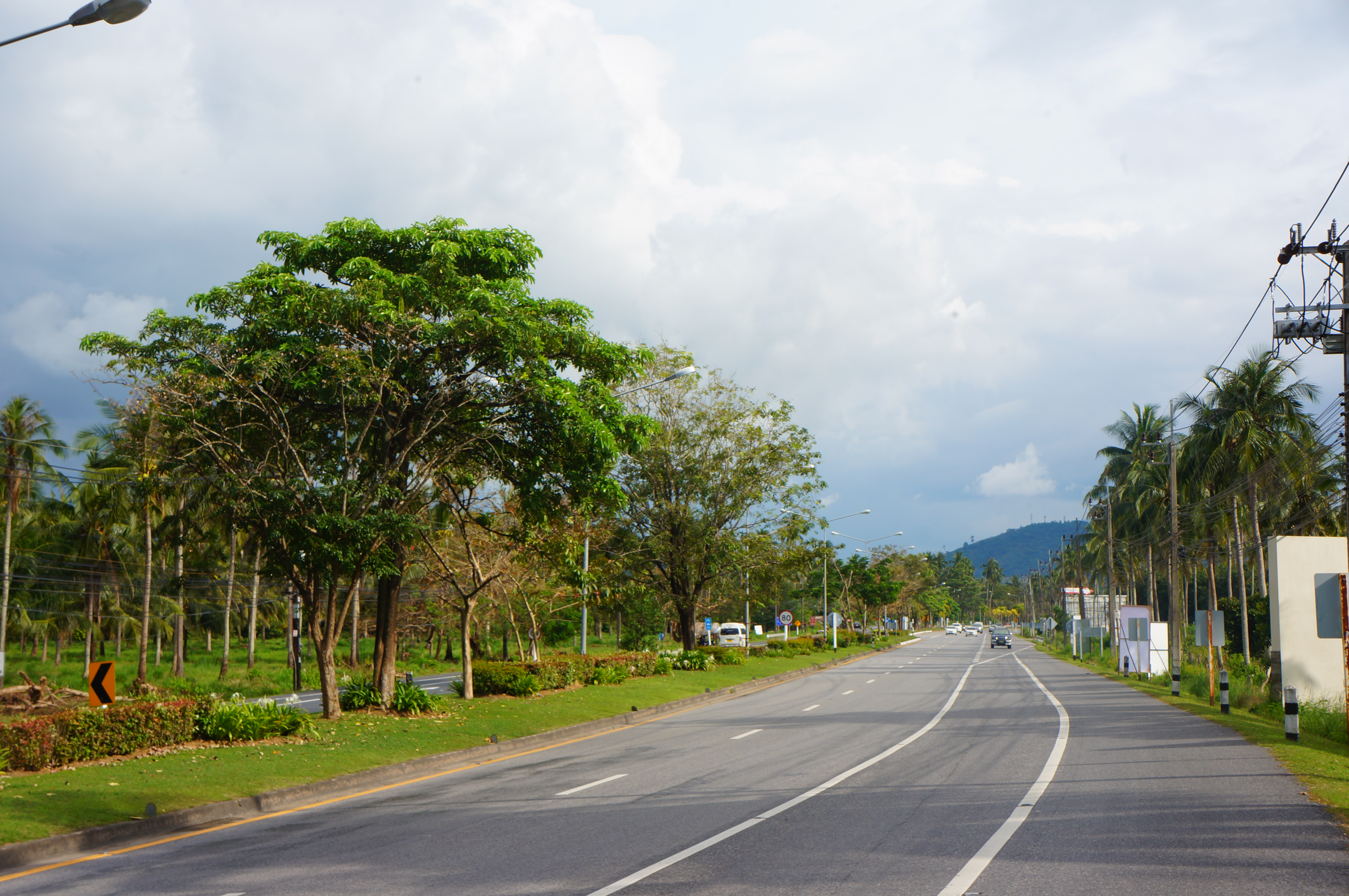 201701 Highway 402 in Moo 3, Maikhao. Bicycles\motorcycles are allowed to be driven